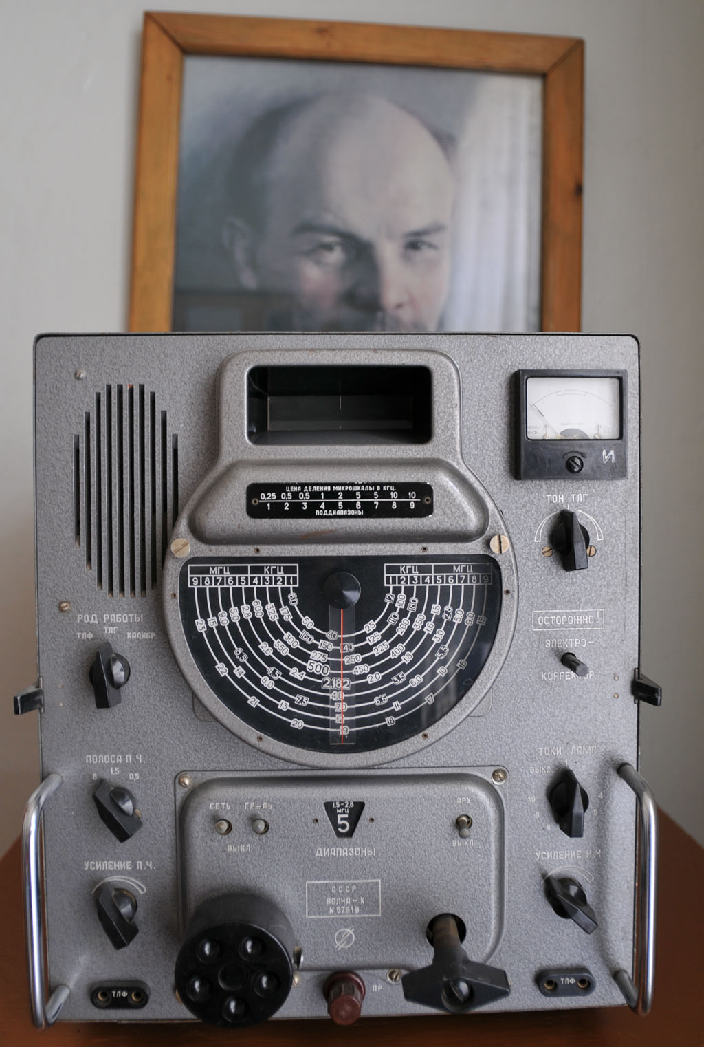 Equipment found on the Semipalatinsk Test Site